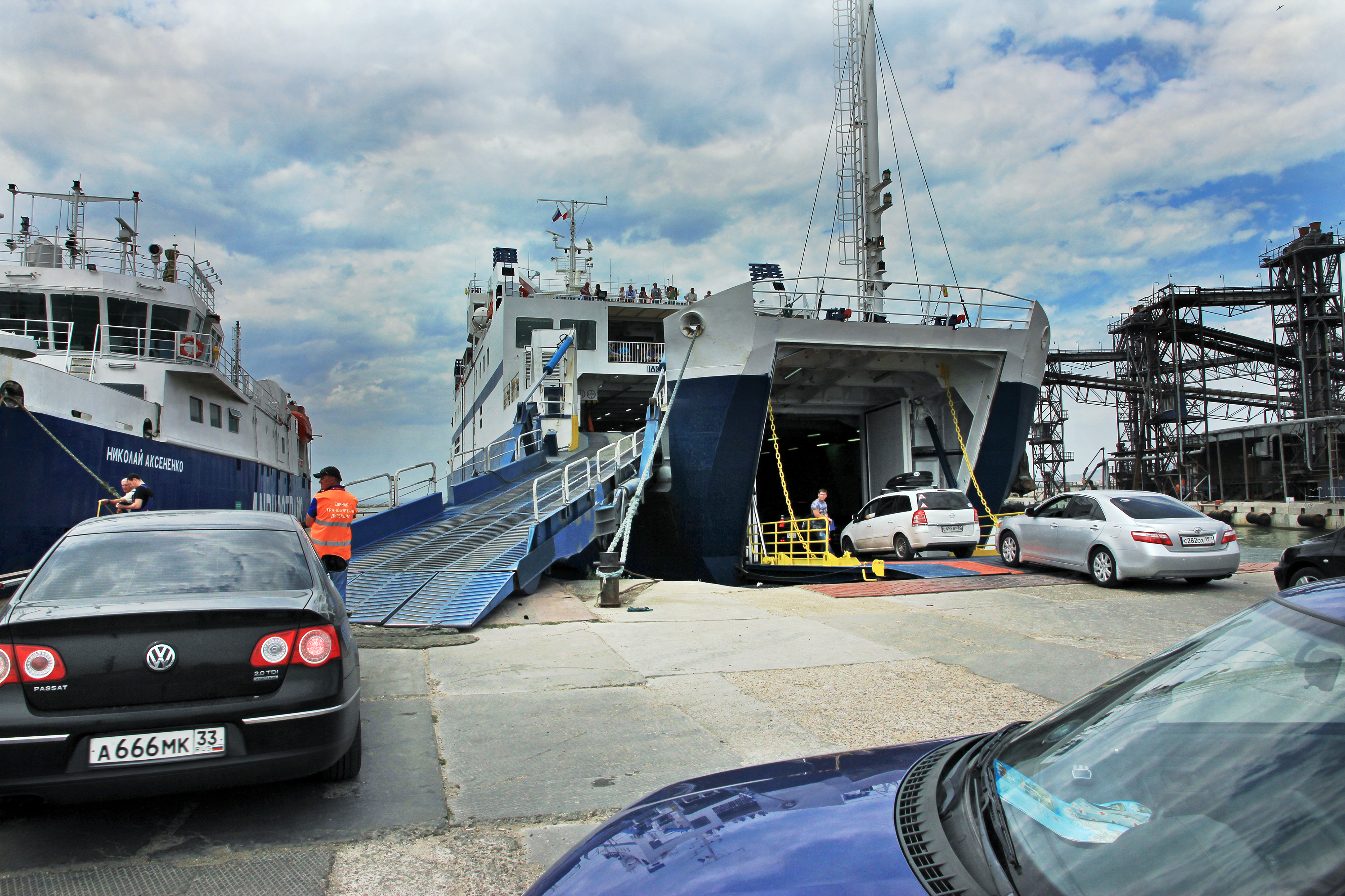 Landing on the ferry in Port Kertz